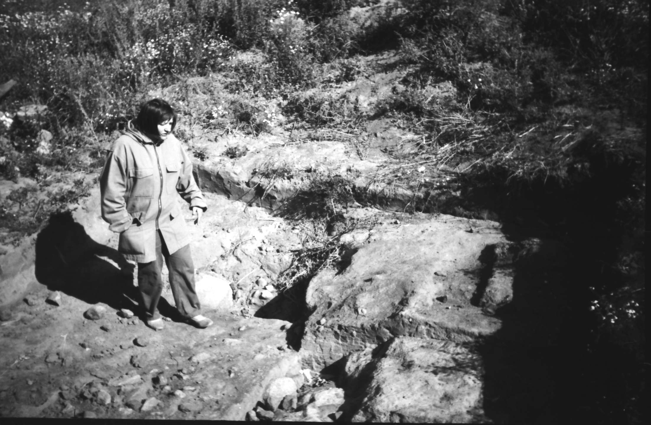 Archeological village in Šiauliai, Lithuania. Birutė Salatkienė